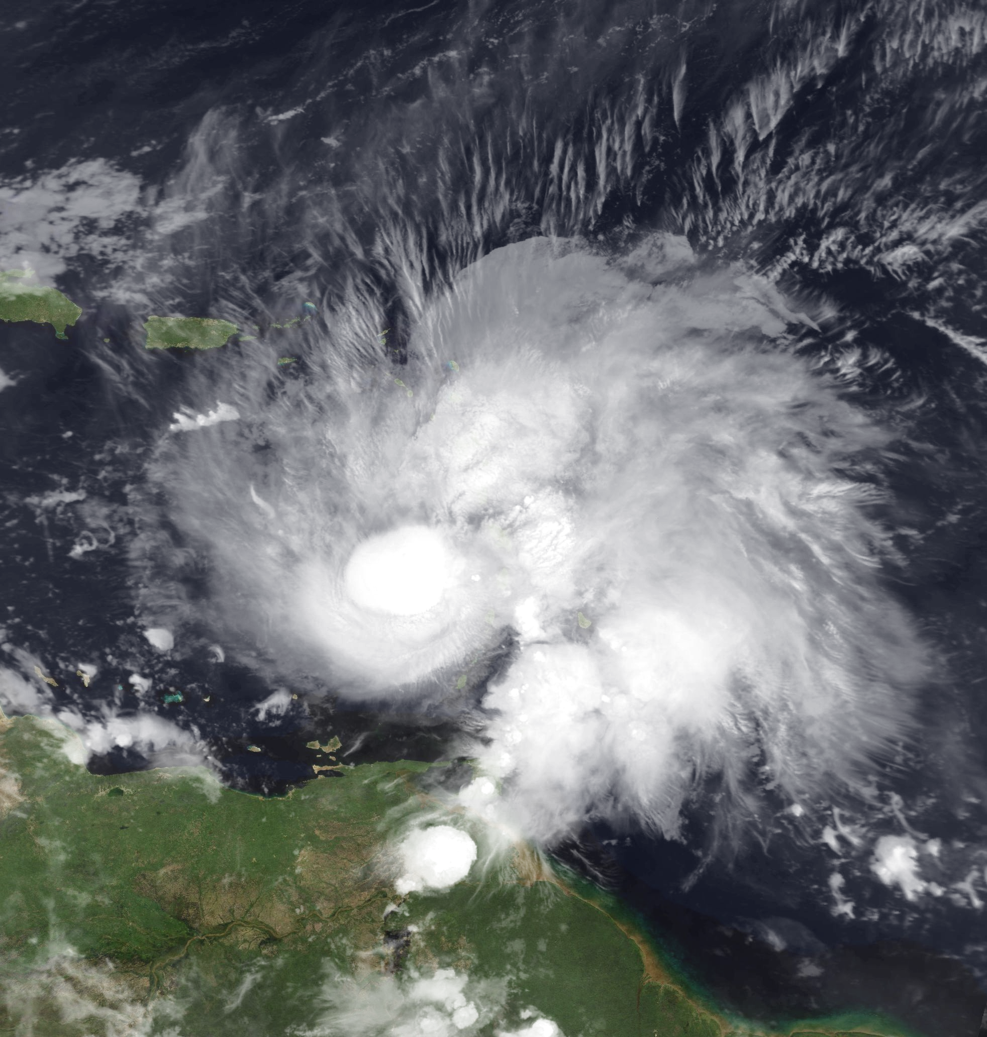 Hurricane Tomas near peak intensity on October 31